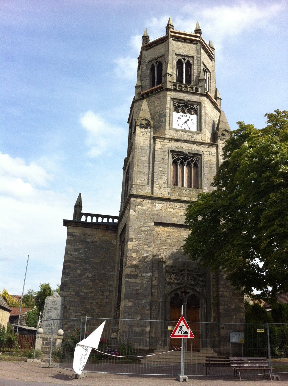 St. Silvestri Church in Unterfarnstaedt (Saxony-Anhalt, Germany)